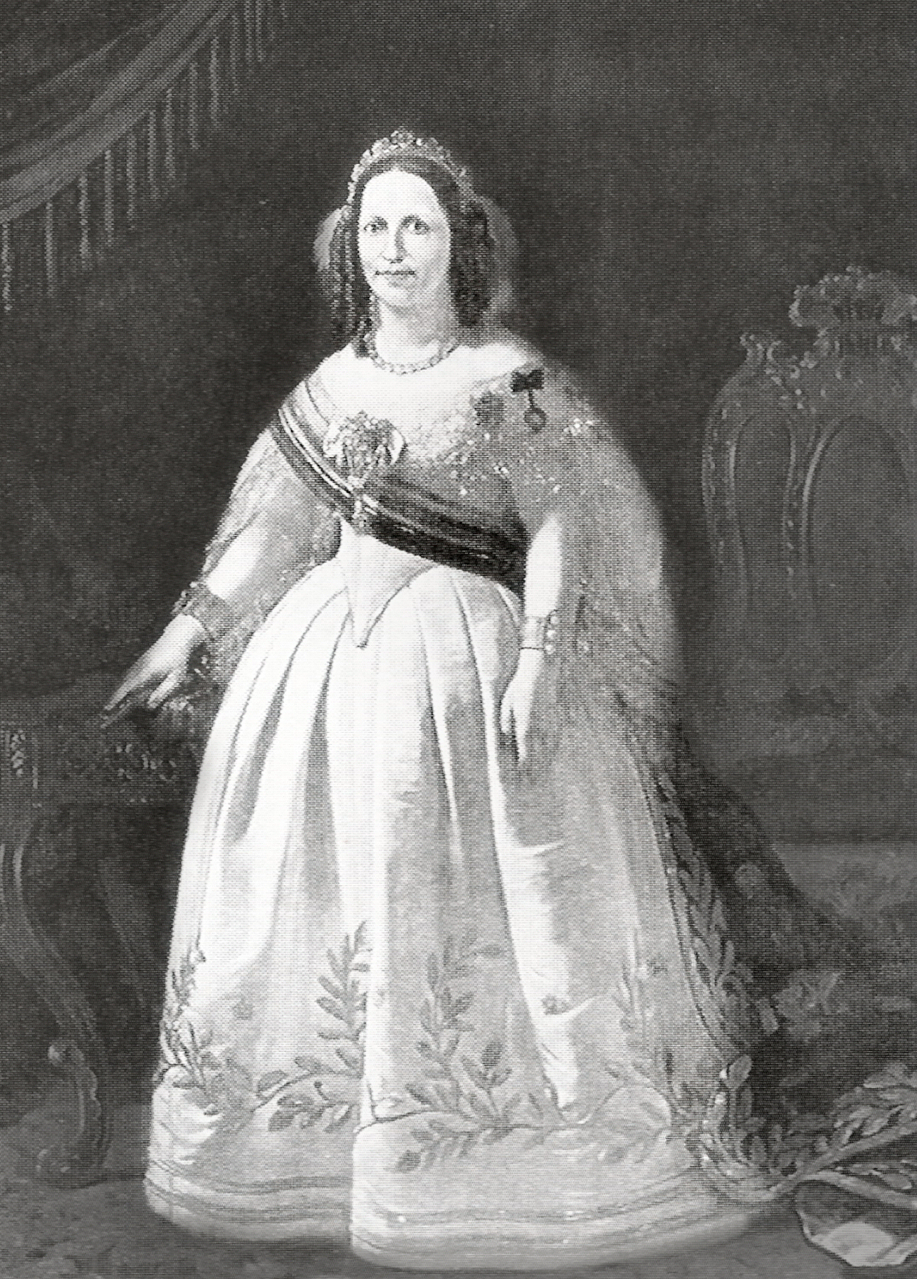 Empress Teresa Cristina of Brazil.